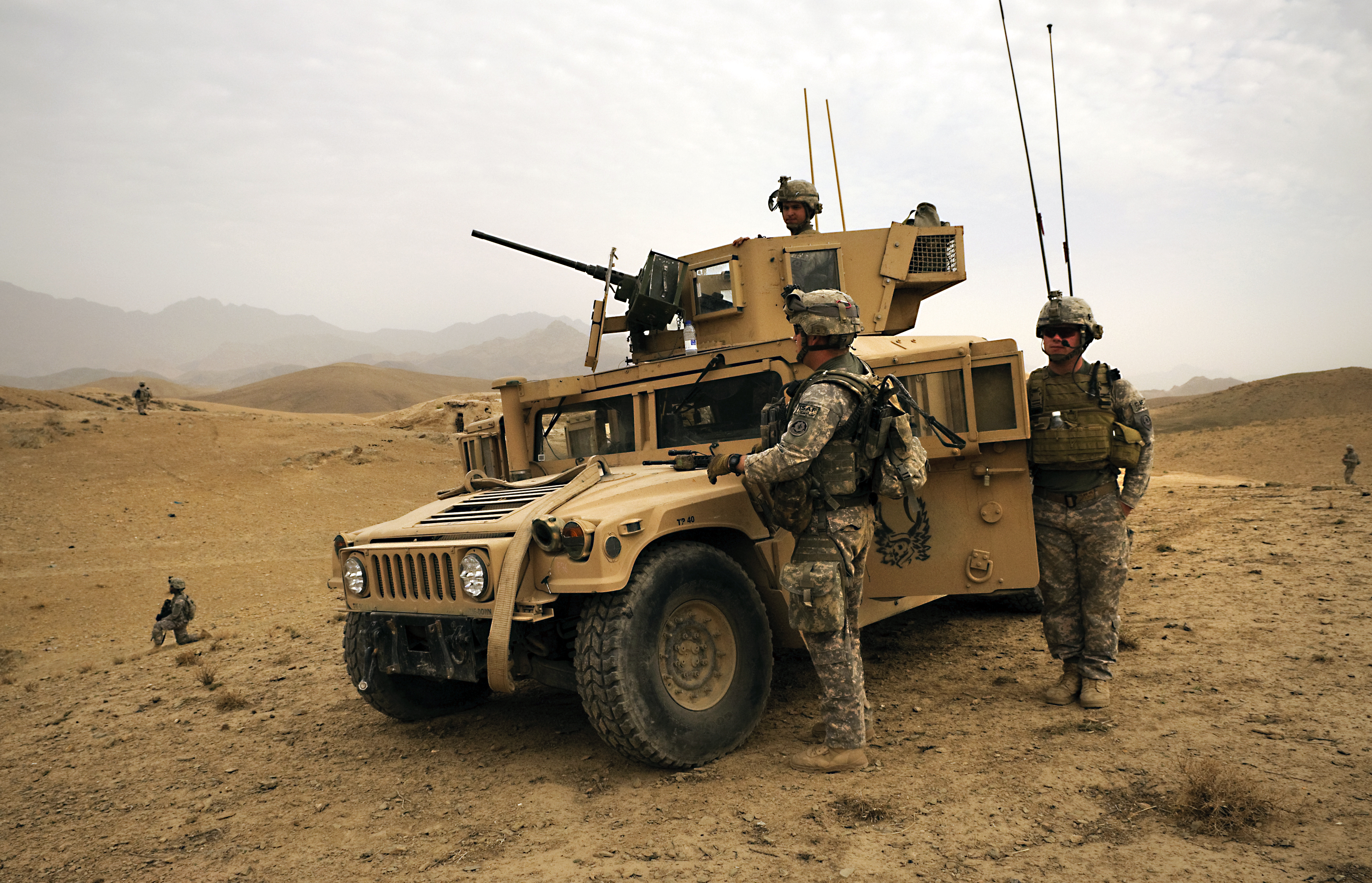 U.S. soldiers provide overwatch for their team during a dismounted patrol near Combat Outpost Mizan, Mizan District, Zabul province, Aug. 16, 2010. The patrol focused on speaking with the local population to assess their needs and surveying the security of the area. The soldiers are assigned to Fox Company, 2nd Squadron, 2nd Stryker Cavalry Regiment.